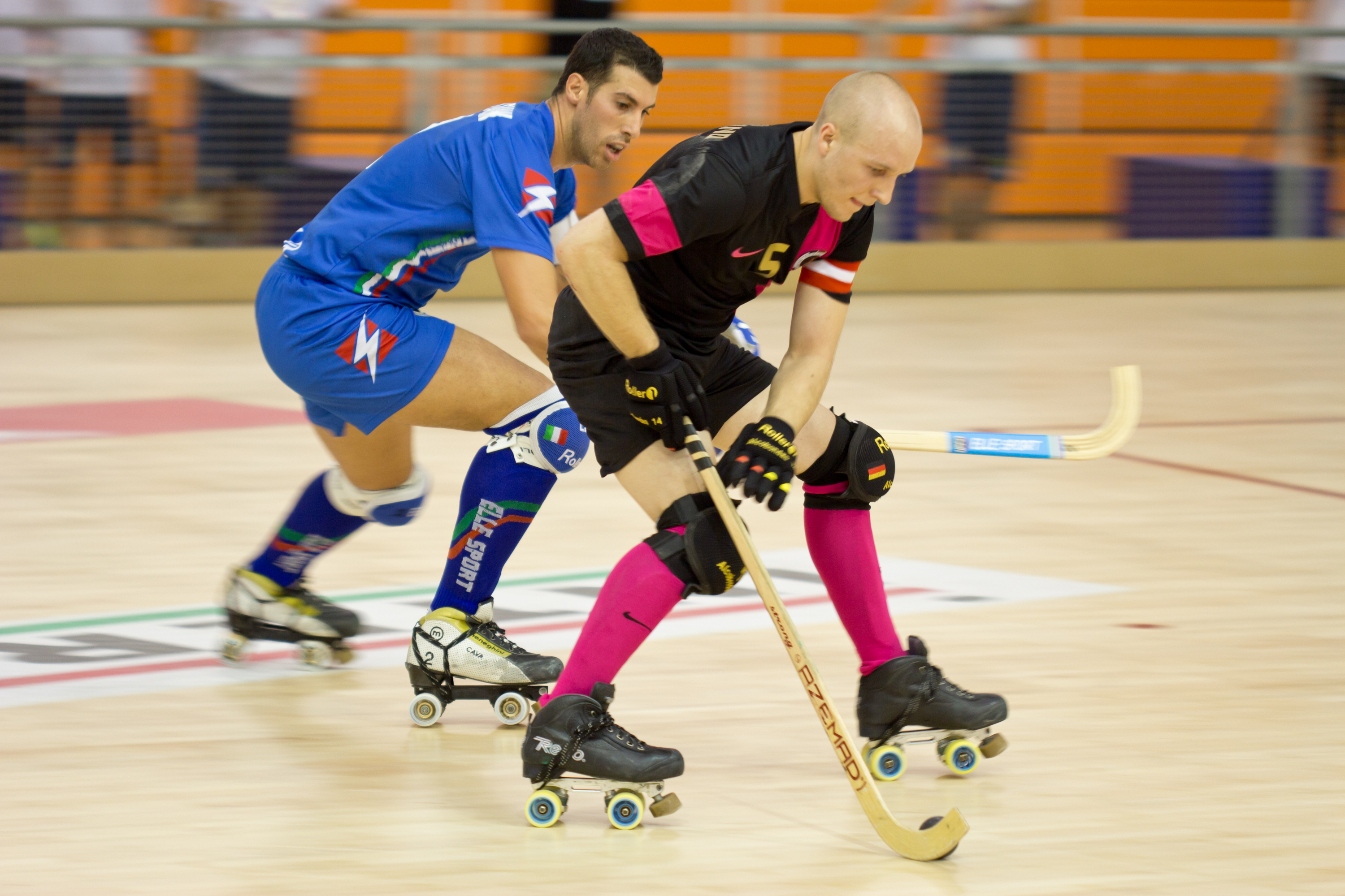 German captain Kevin Karschau goes forward with the ball while Italian captain Davide Motaran tries to stop him, Germany vs Italy, 2014 CERH European Championship.